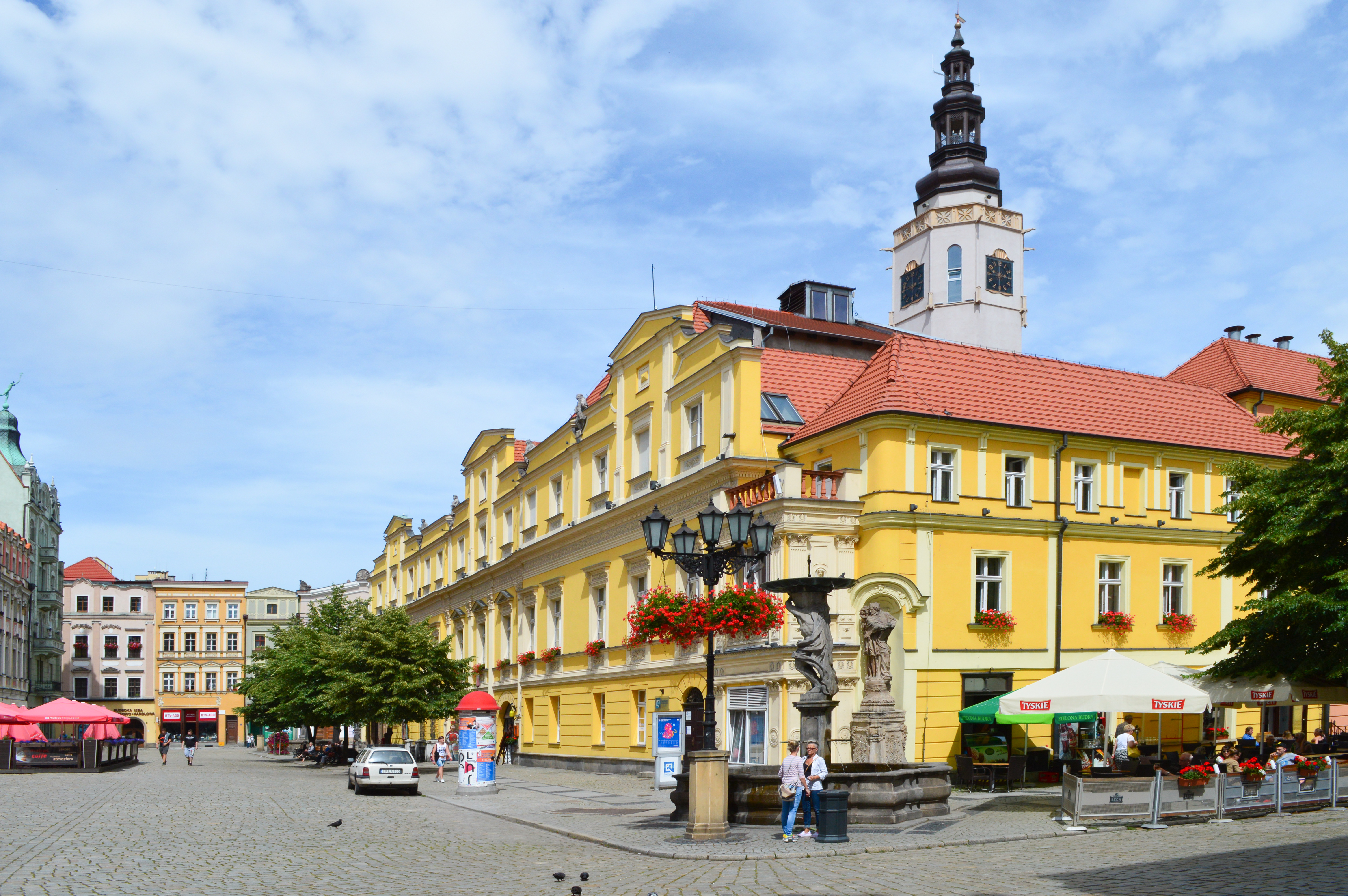 Świdnica is a city in Silesia in south-western Poland. It lies in the Lower Silesian Region, being the seventh largest town in that region. The Gothic Church of Saints Stanisław and Wacław from the fourteenth century has the highest tower in Silesia, standing 103 meters tall. The Evangelical Church of Peace, a UNESCO Heritage site, was built from 1656–57. The sixteenth century Town Hall has been renovated numerous times and combines Gothic, Renaissance, and Baroque architectural elements. The Scotch Mist Gallery contains many photographs of historic buildings, monuments and memorials of Poland.